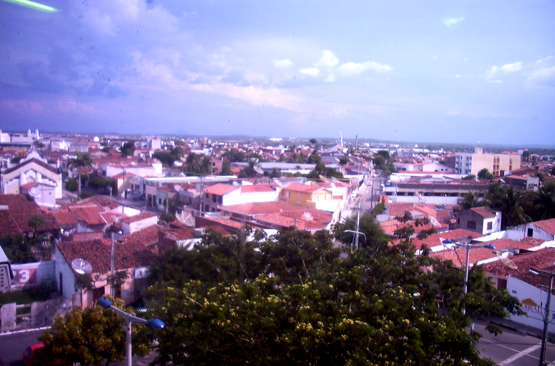 A view of Sobral downtown, state of Ceará, Brazil, as photographed from the seat of the municipal government. Author: Renato M.E. Sabbatini. January 2003.